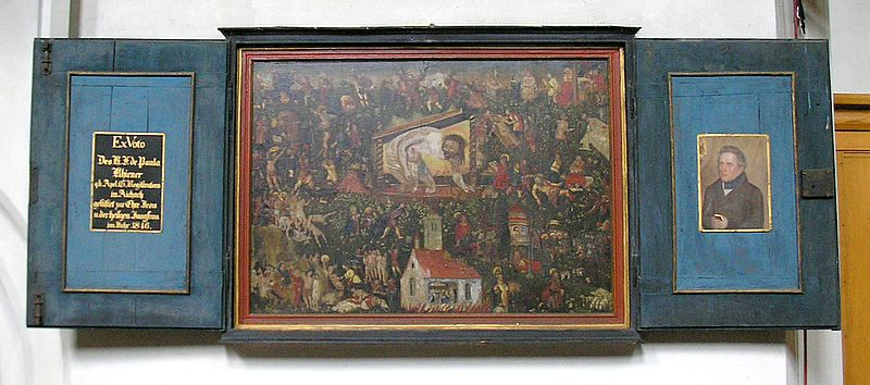 Oberwittelsbach, Subsidiary Church of the Blessed Virgin Mary. Panel depicting "Christ in the Winepress" (ca. 1566, probably by Jesse Herlin).